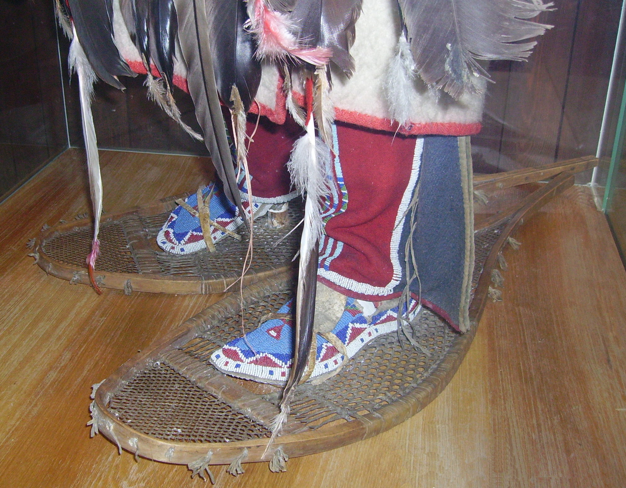 Snowshoe, Karl May Museum Radebeul